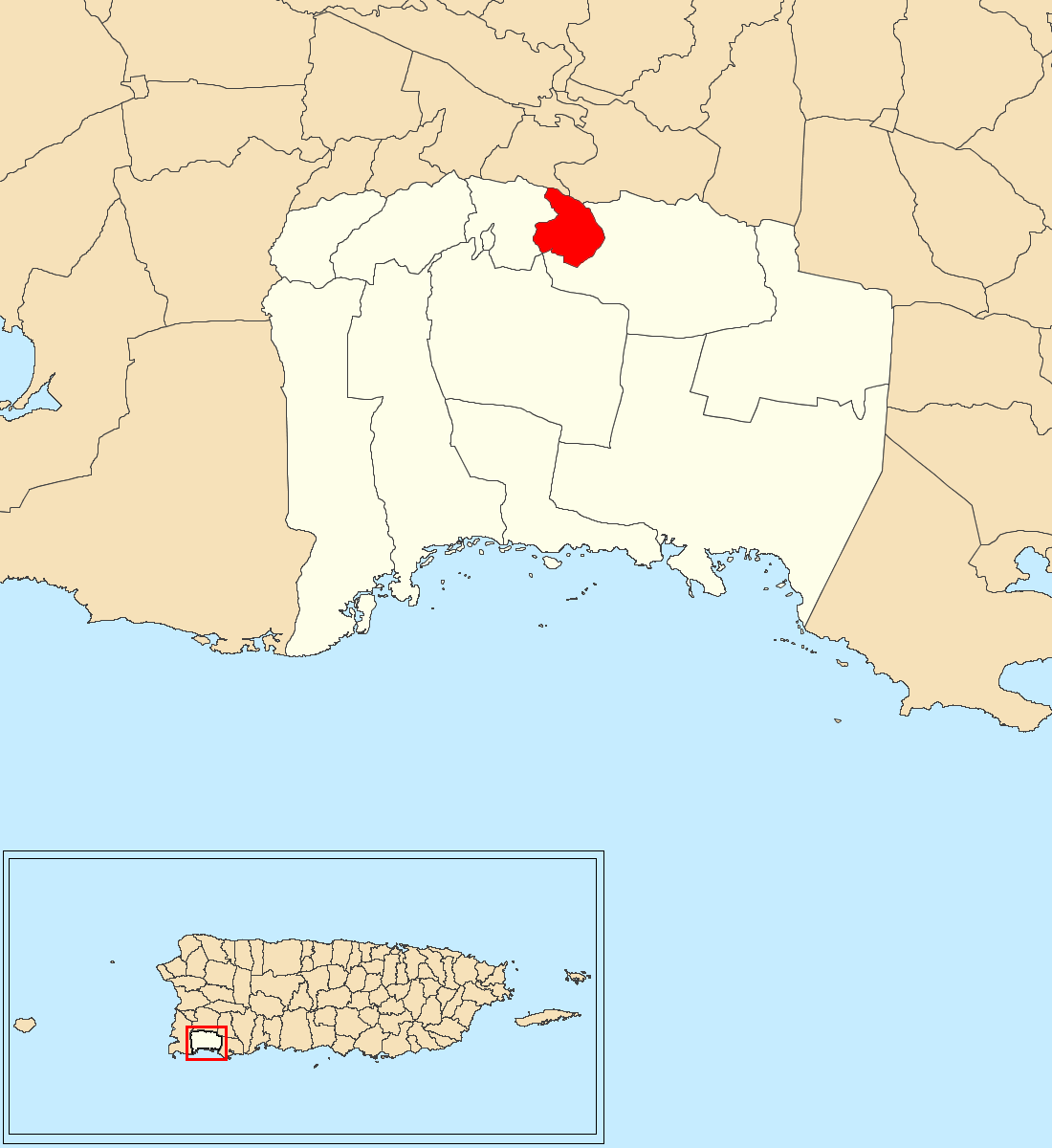 Santa Rosa, Lajas, Puerto Rico locator map